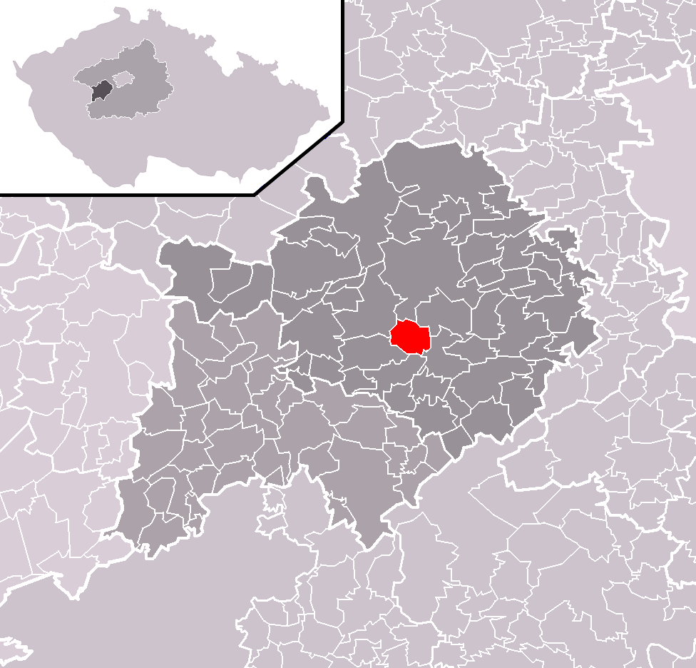 Location of Koněprusy municipality within Beroun District and administrative area of Beroun as a Municipality with Extended Competence.